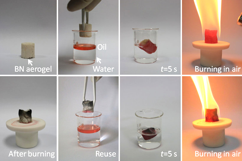 (a–d) Absorption and burning process of cyclohexane (stained with Sudan Red II and floating on water) by the BN aerogel within 5 s. (e–h) BN aerogel after burning in air reused for absorption of cyclohexane.